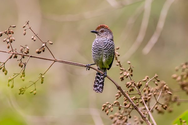 "Choca-de-chapéu-vermelho (Thamnophilus ruficapillus) fotografado em Afonso Claudio, Espírito Santo - Sudeste do Brasil. Bioma Mata Atlântica. Registro feito em 2013. ENGLISH: Rufous-capped Antshrike photographed in Afonso Claudio, Espírito Santo - Southeast of Brazil. Atlantic Forest Biome. Picture made in 2013."